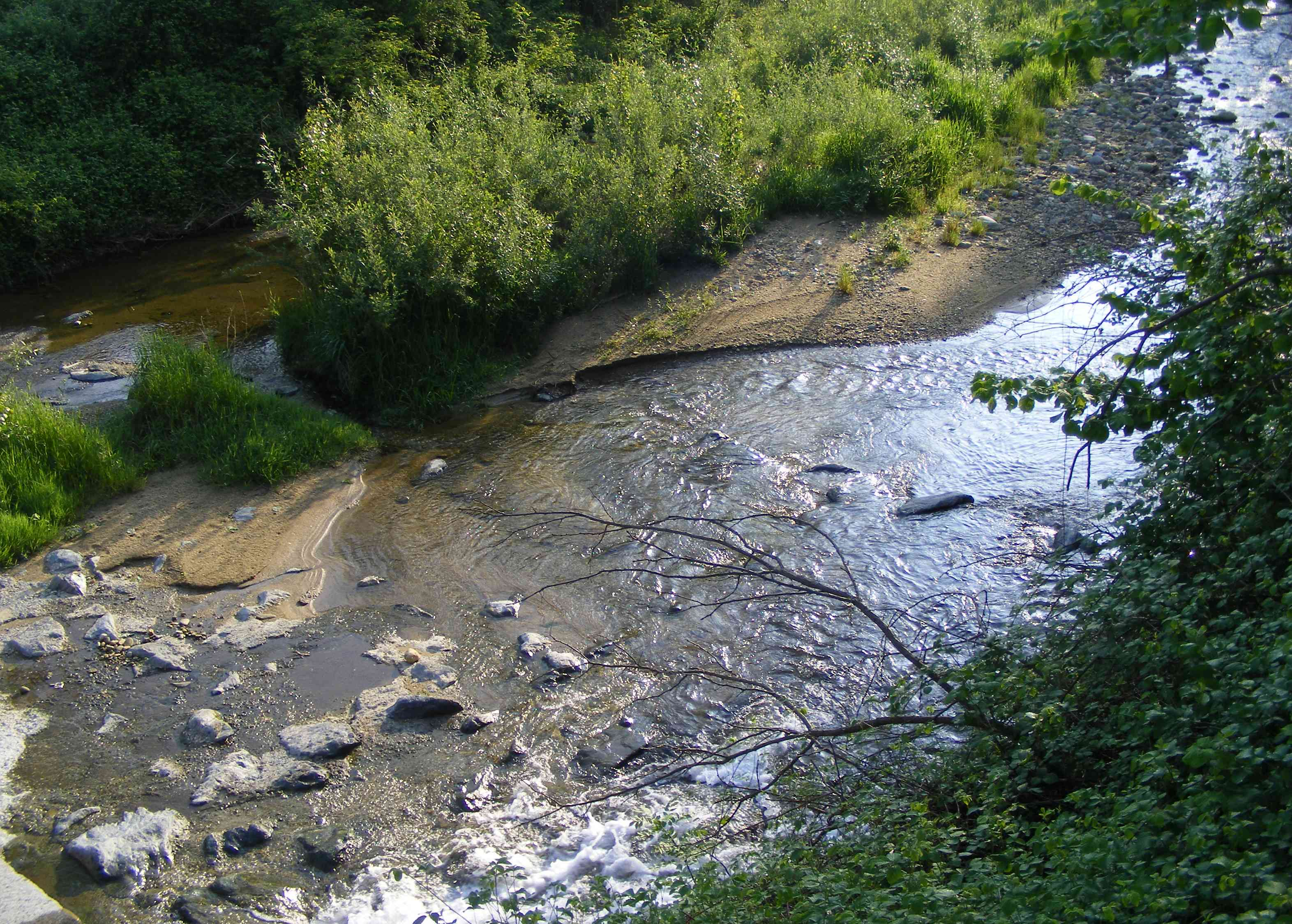 Fandaglia creek from the SP34 bridge between Barbania and Front (TO, Italy)